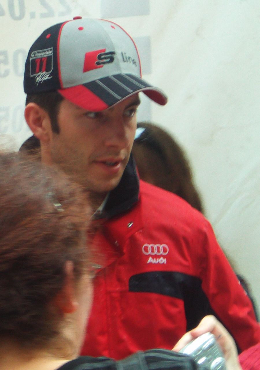 DTM driver Mike Rockenfeller during an autograph session at Norisring race 2007